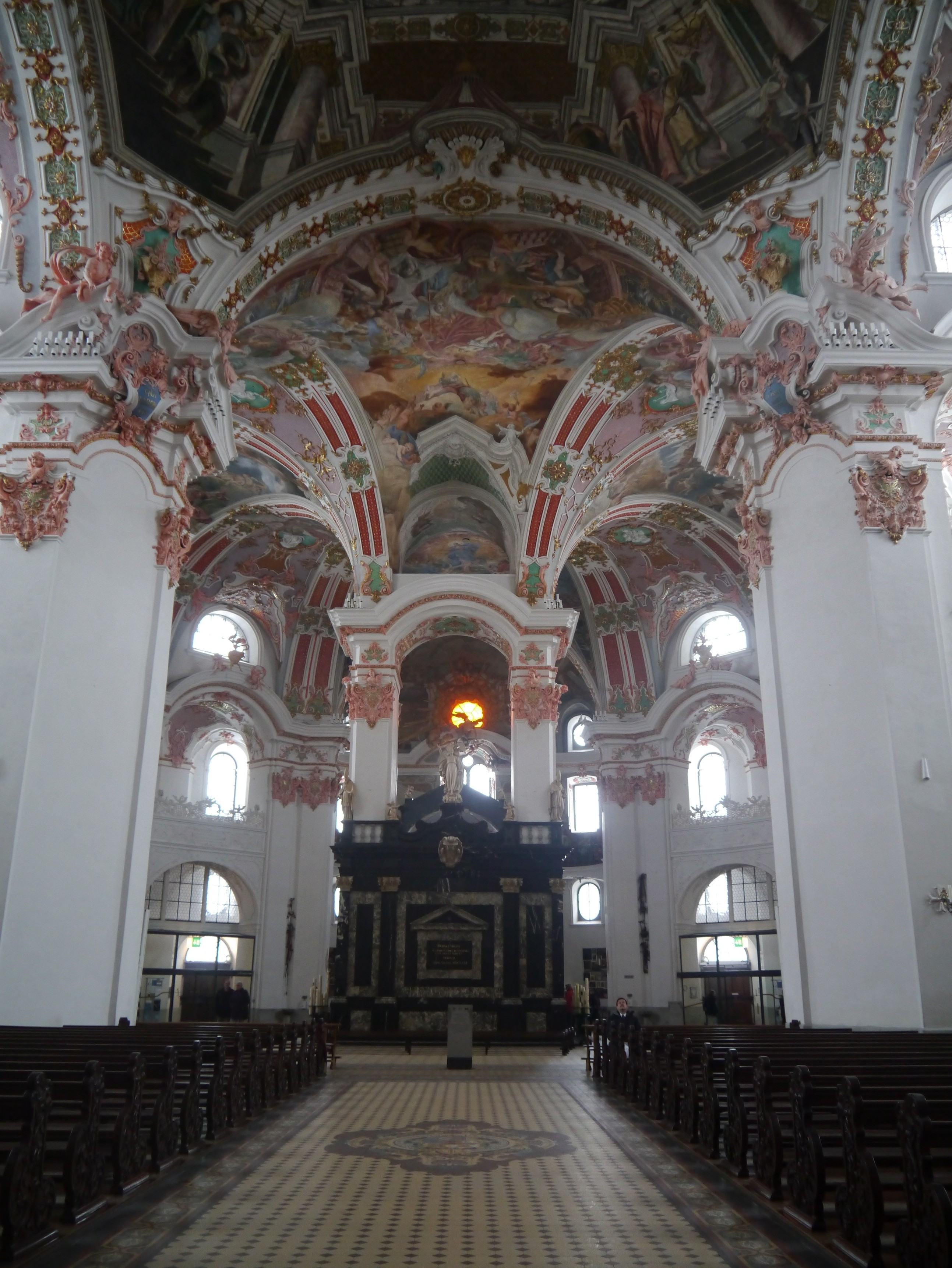 Nave of the Abbatial Cathedral St. Mauritius, Einsiedeln, Canton of Schwyz, Central Switzerland